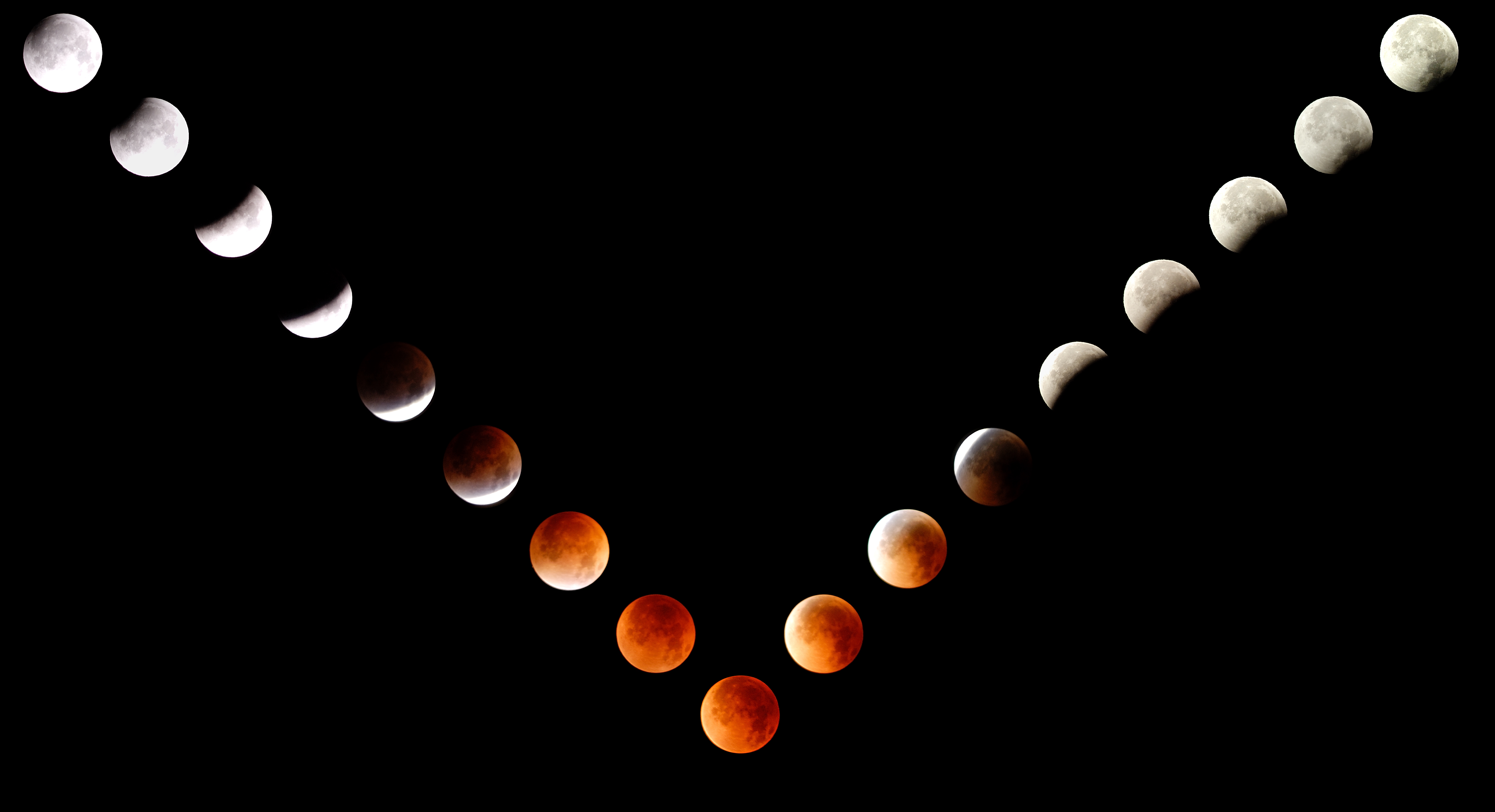 A series of images of the August 28, 2007 lunar eclipse taken from the Oregon Coast by Randall J Scholten using a Nikon D200 and 200mm zoom lens. Created with Photoshop CS2.